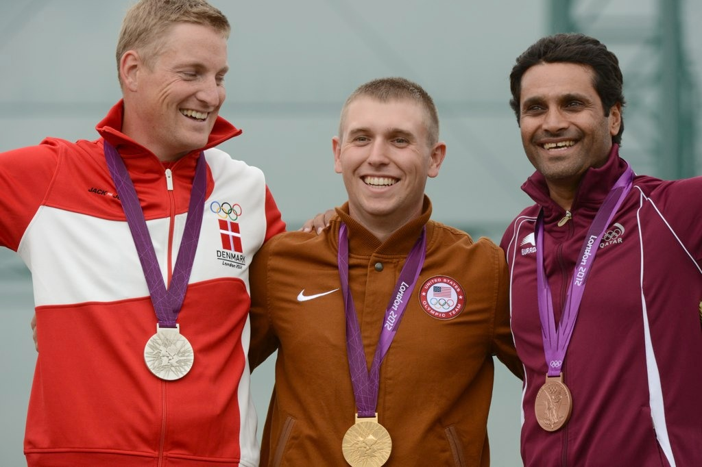 In double record-setting fashion, Sgt. Vincent Hancock became the first shotgun shooter to win consecutive Olympic gold medals in men’s skeet on Tuesday at the Royal Artillery Barracks. Hancock, 23, a Soldier in the U.S. Army Marksmanship Unit from Eatonton, Ga., eclipsed his own records set at the 2008 Beijing Games for both qualification (123) and total (148) scores. He struck gold in China with a qualification score of 121 and total of 145. Hancock prevailed by two shots over silver medalist Anders Golding (146) of Denmark and by four shots over Qatar’s Nasser Al-Attiya (144), who secured the bronze medal by winning a shoot-off against Russia’s Valeriy Shomin.